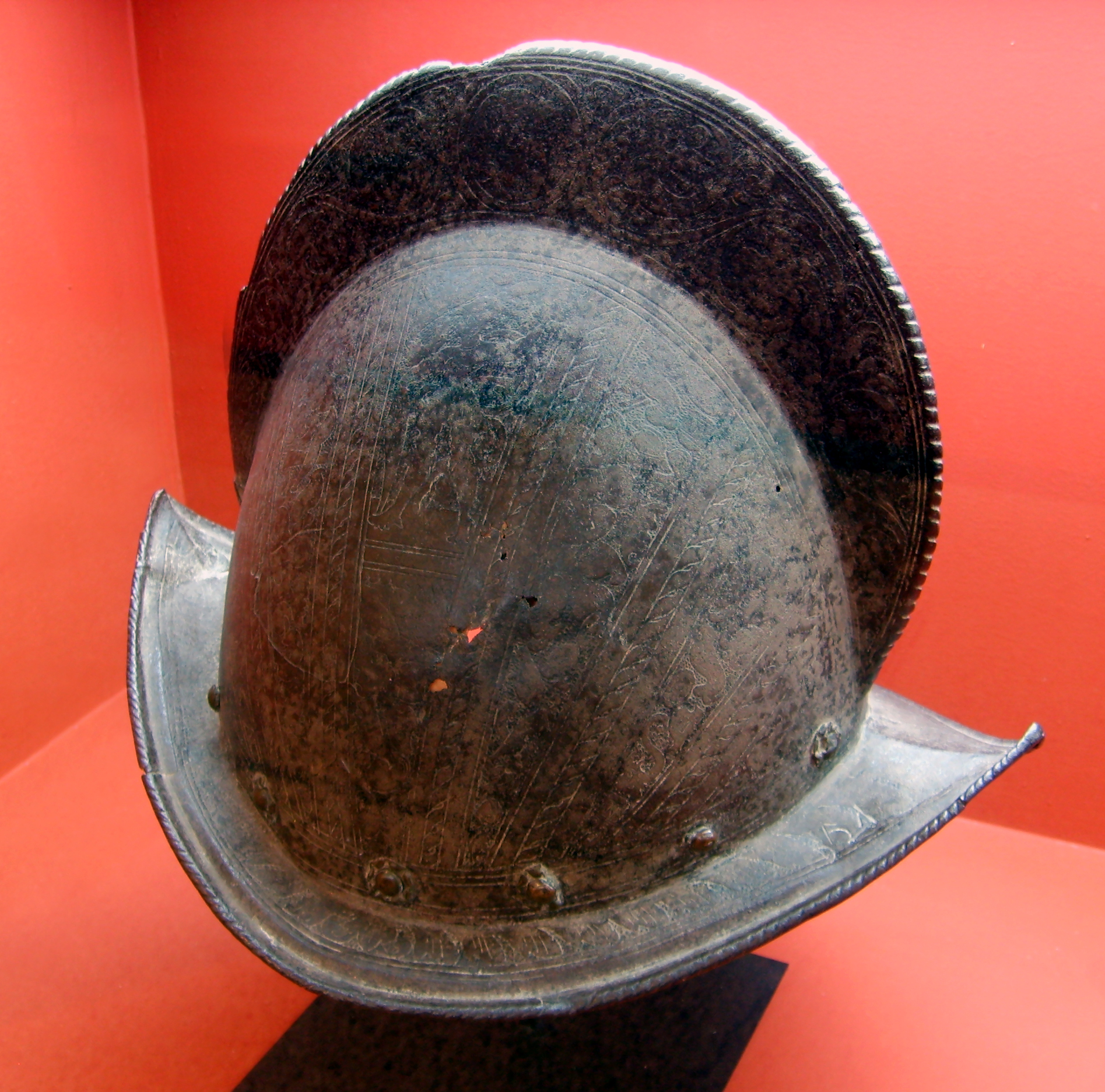 A metallic helmet, used approximately in the 17th century by Spanish conquerors in America. It's in the Museo del Carmen, Maipú, Santiago de Chile.